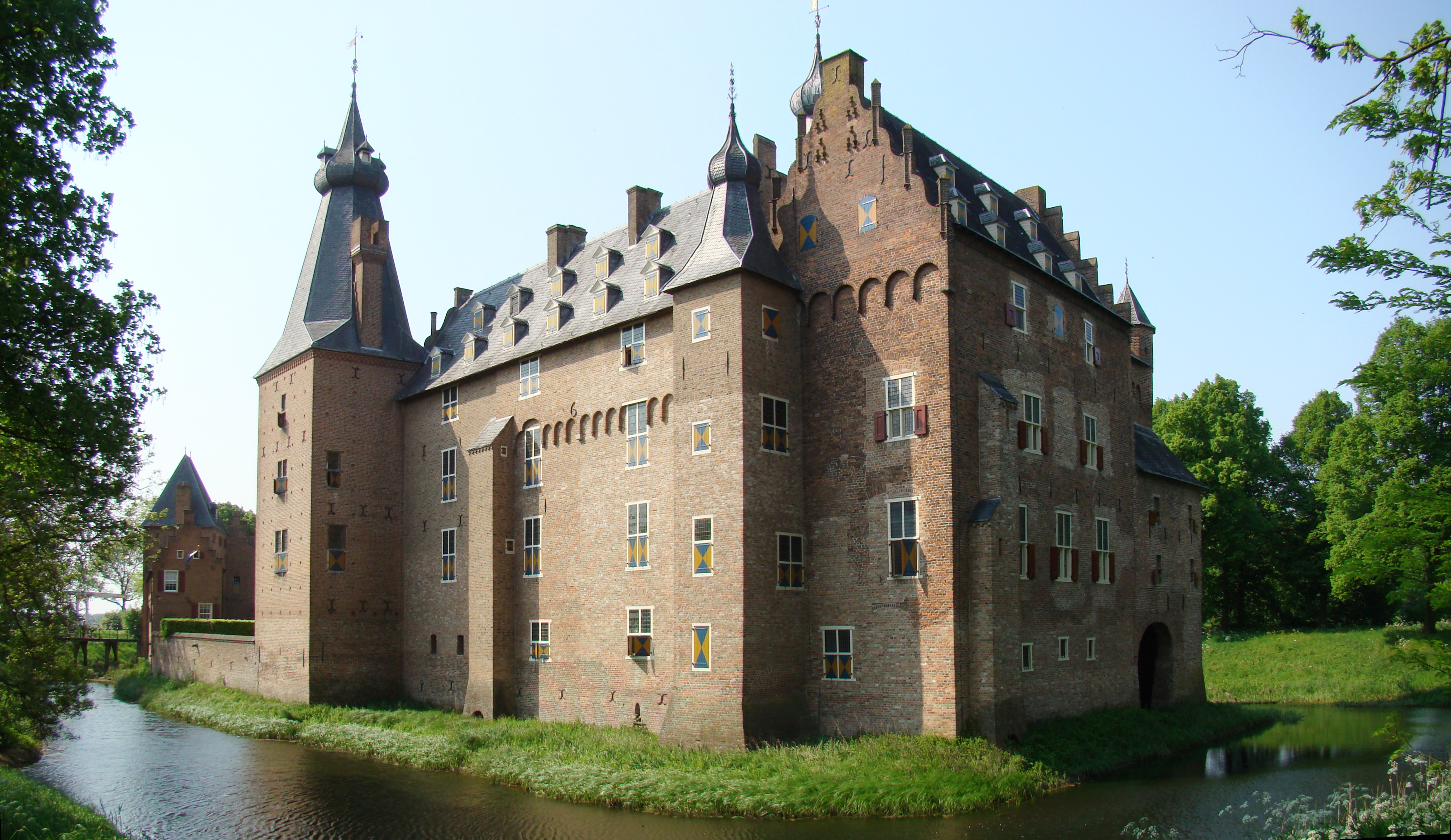 Impressions of Castle Doorwerth